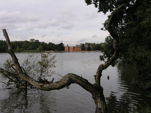 Rufford Mill. The Mill in Rufford Country Park viewed from across the lake.